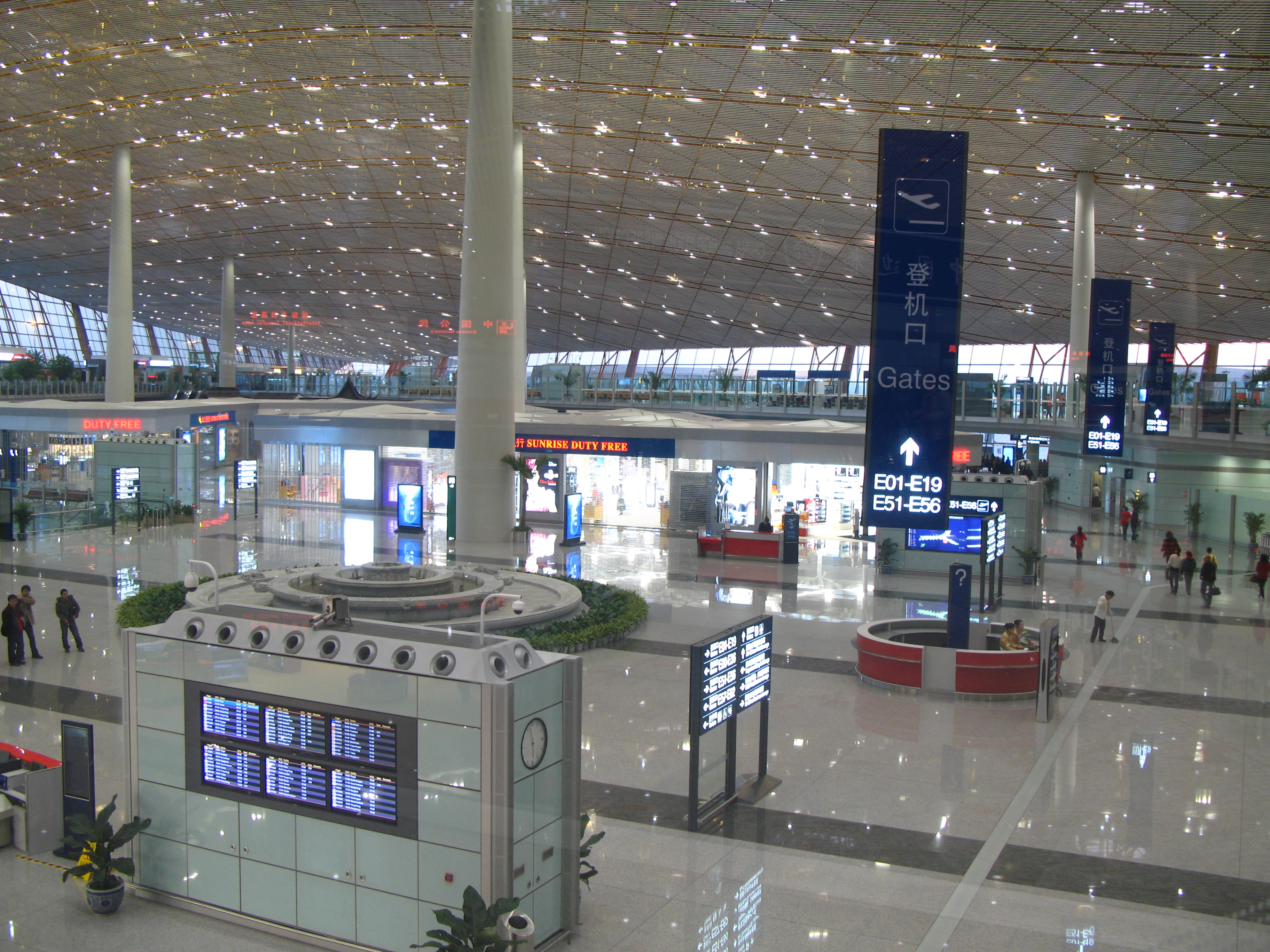 person called steve zhang captured his photo so ask him about it on